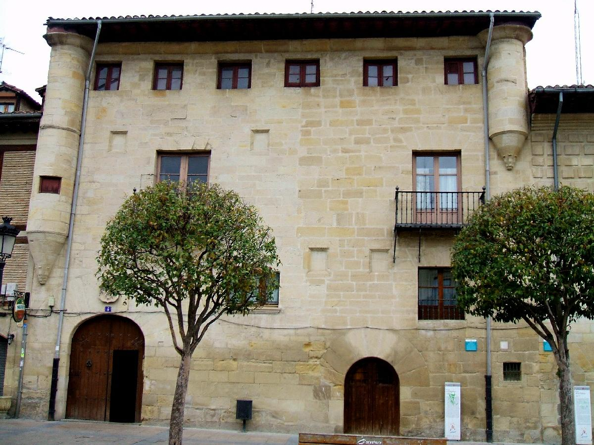 Casa de los Urbina (s-XVI), en la Plaza de España de Miranda de Ebro (Burgos, Castilla y León, España)